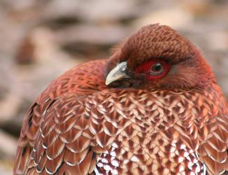 Copper Pheasant